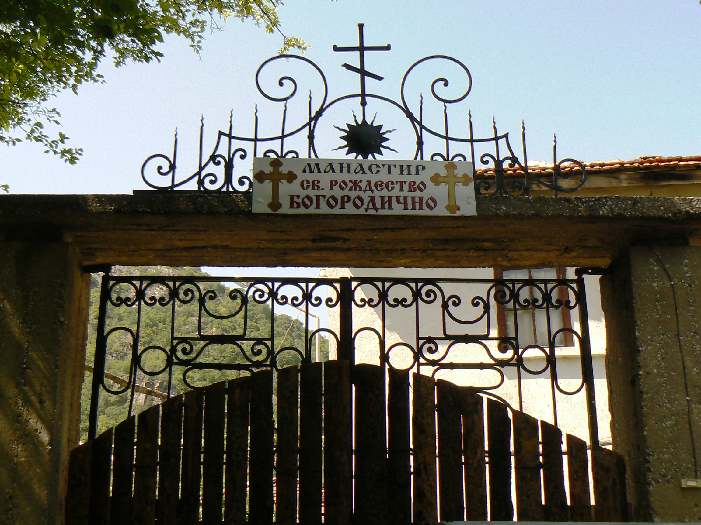 The gate of Krichim Monastery, Bulgaria.